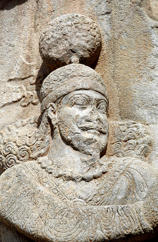 Taq-e Bostan: detail of the low-relief of Ardashir II's investiture, the head of the king